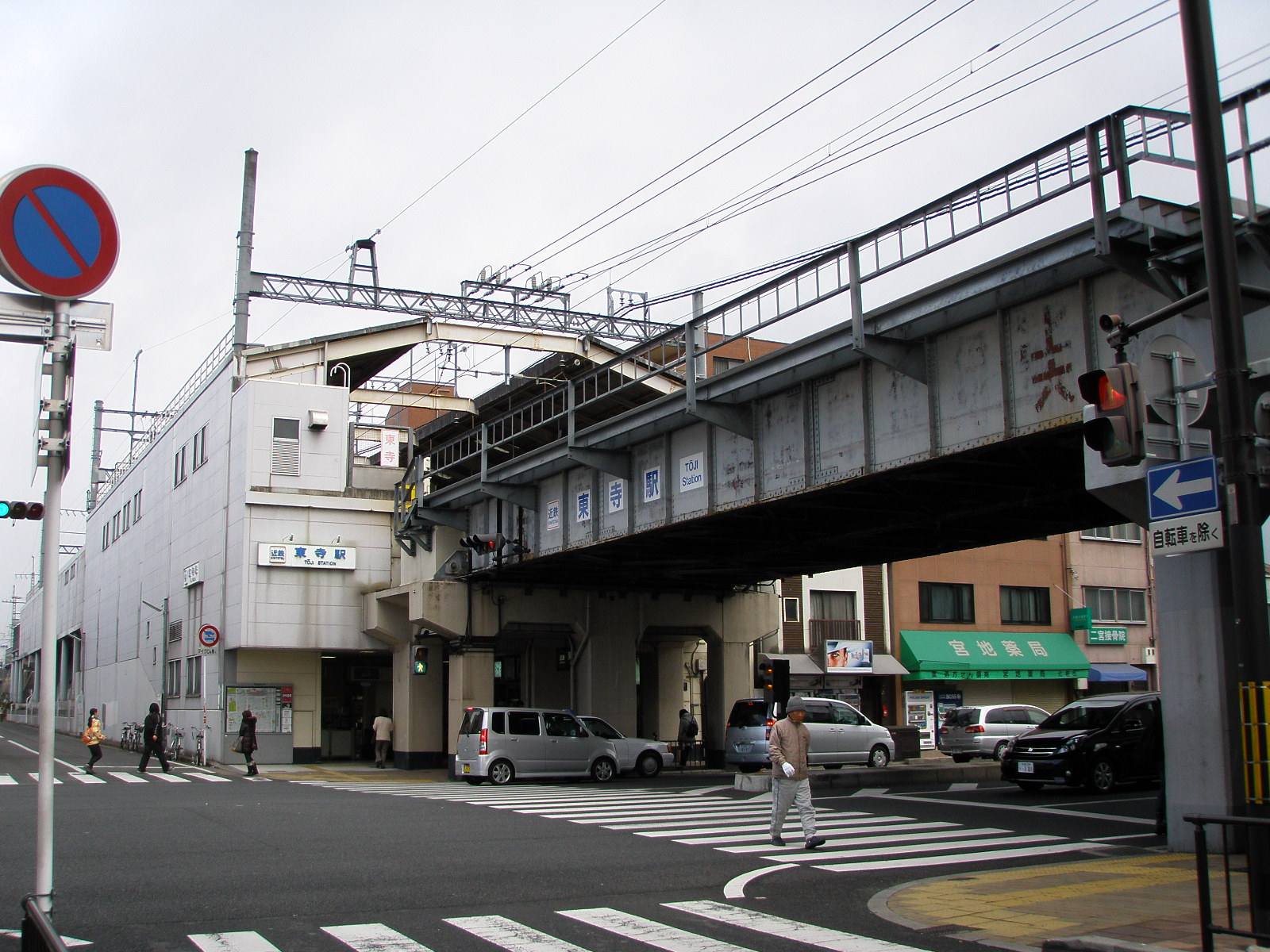 Kinki Nippon Railway Kyōto Line Tōji Station Building